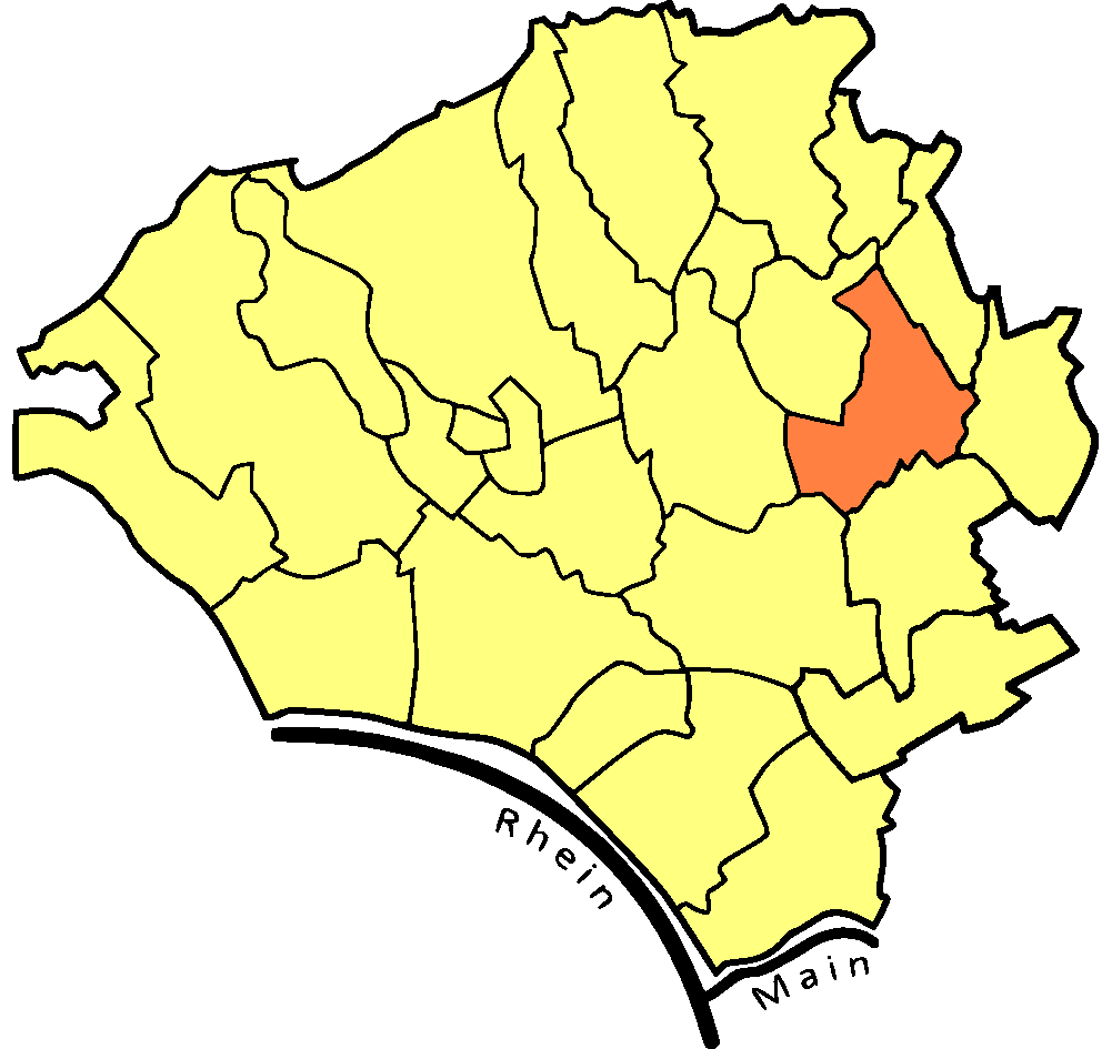 Map of Wiesbaden showing the location of Igstadt